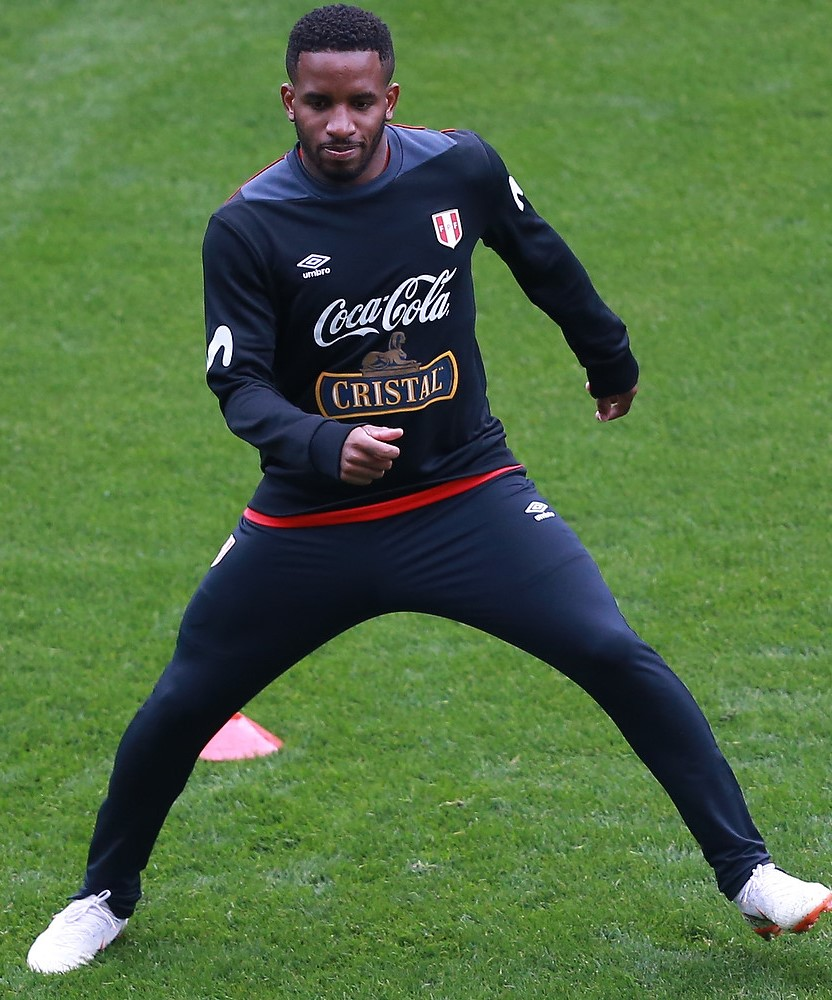 Jefferson Farfán